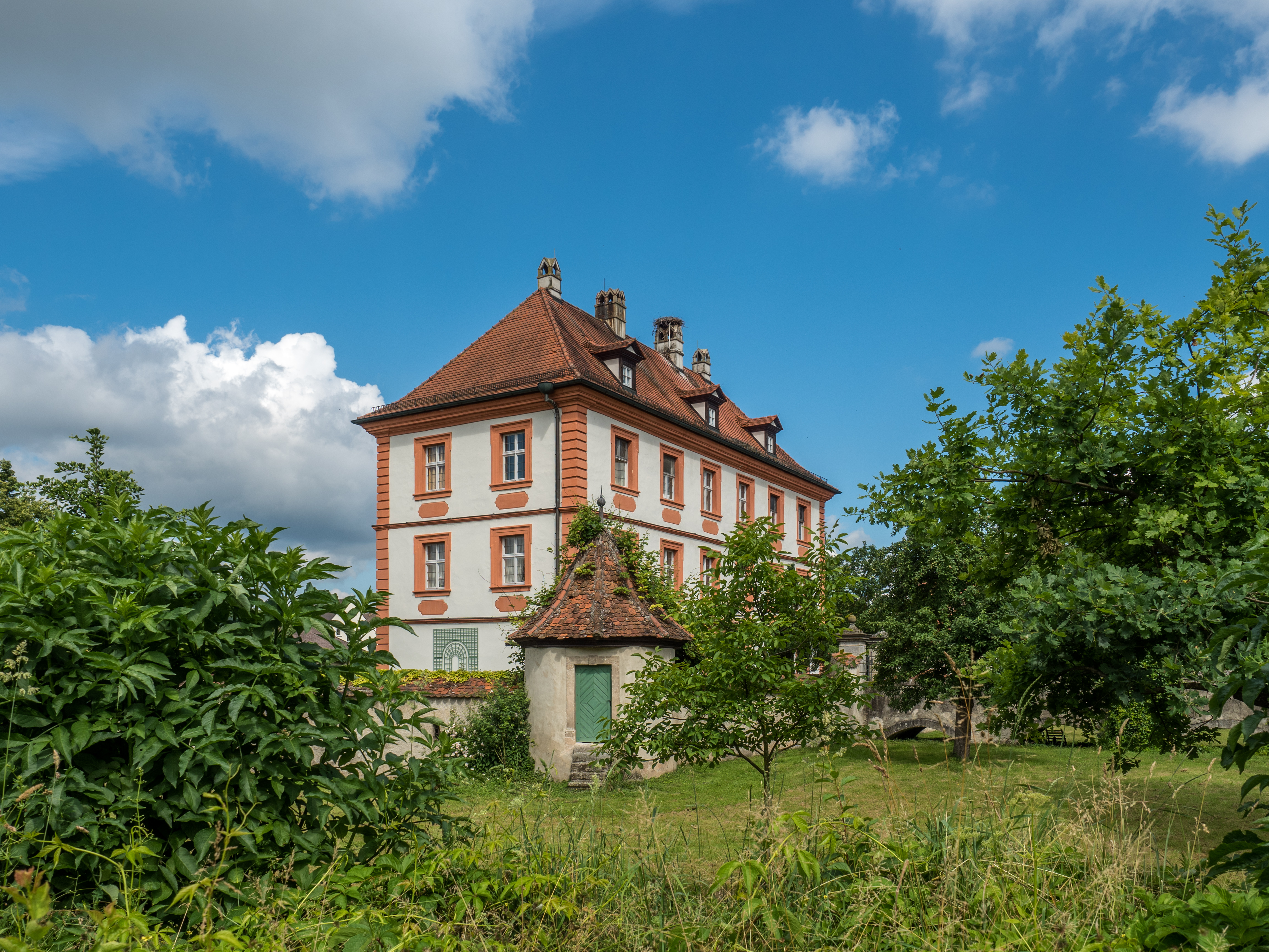 Castle in Sambach